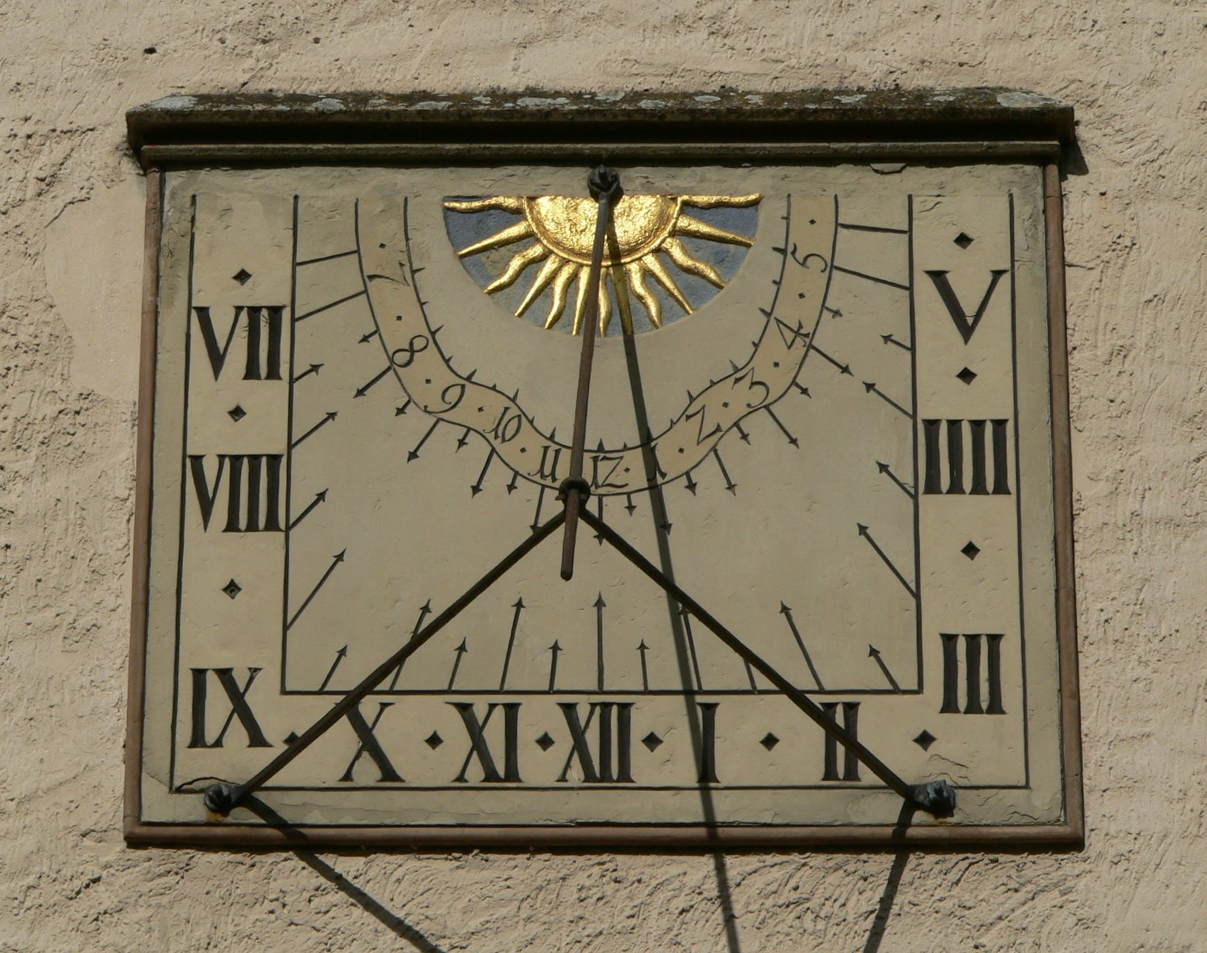 Sun dial of the church Stadtkirche St. Blasius in Bad Liebenzell, Germany